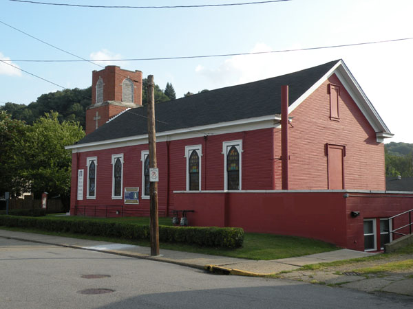 Picture of the former New Philadelphia Society's church, which was founded and led by Bernhard Müller from 1832 to 1833. Located at 300 Fifth Street in Monaca, Pennsylvania, the church was formerly St. Peter's Evangelical Lutheran Church, but is currently Word of Life Christian Worship Center. The historical marker located near the front of the church says the following: "St. Peter's Evangelical Lutheran Church constructed 1832 by separatists from the Harmony Society, under the leadership of Count Maximilian de Leon, organized as New Philadelphia Society. 1840 - first school built. 1850 - first pipe organ in Beaver County. Beaver County Historical Research & Landmarks Foundation".